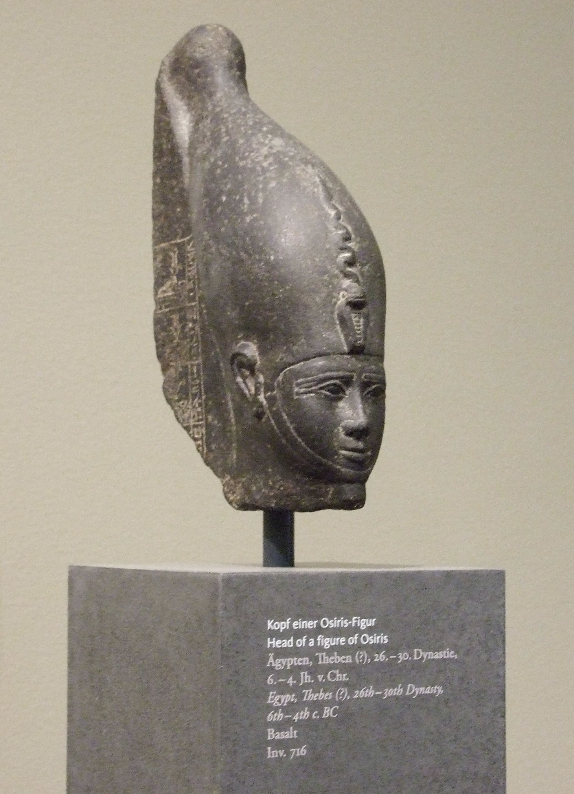 Head of a figure of "Osiris", Egypt, probable Thebes, 26th-30th dynasty, 6th-4th c. BC, at "Liebieghaus" in Frankfurt am Main, Germany.